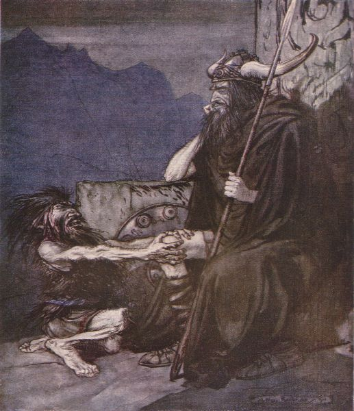 "Swear to me, Hagen, my son!"